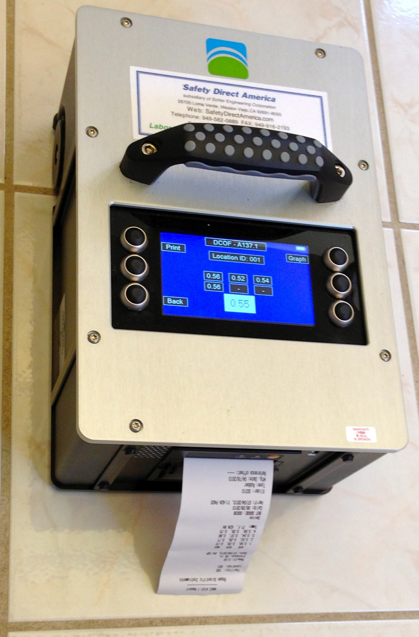 This is a photo of the BOT-3000E floor slip resistance test device.